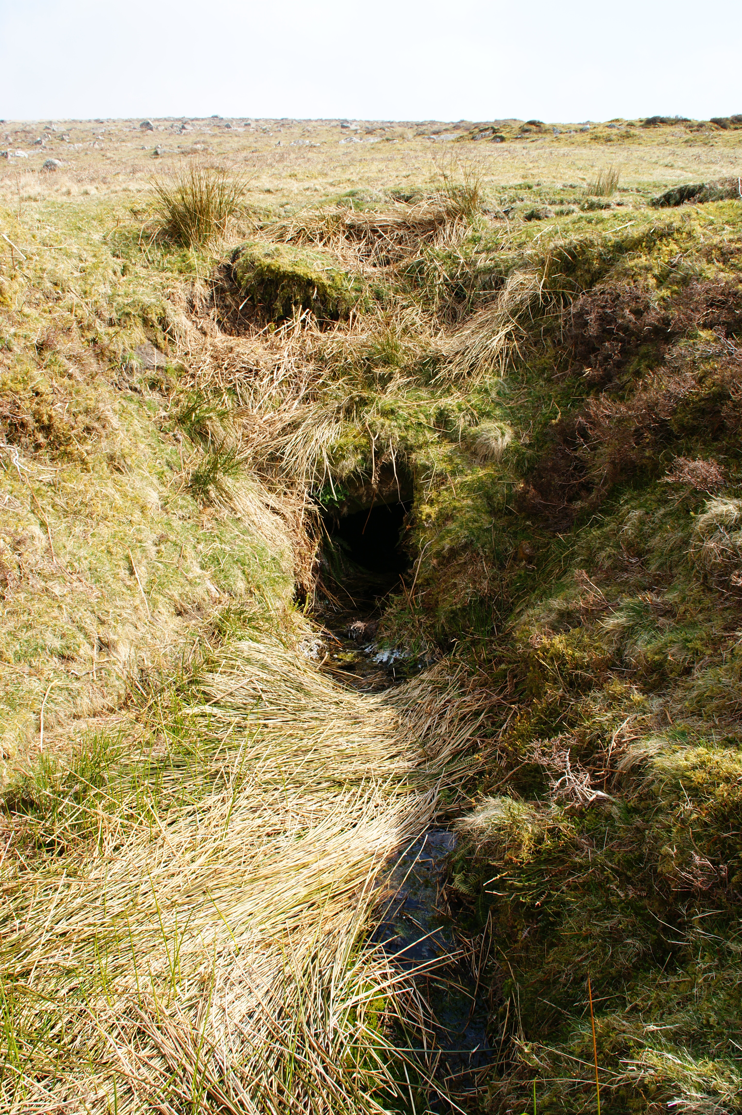 Entrance to the Two Brothers adit at Eylesbarrow mine on Dartmoor in South Devon, UK.